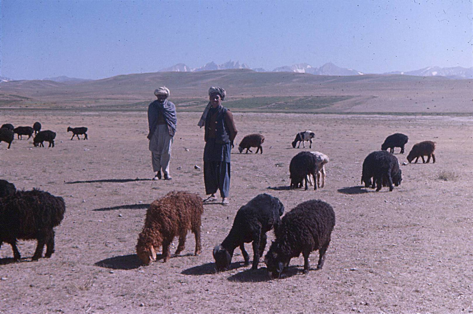 Fat tailed sheep, Afghanistan, 1976